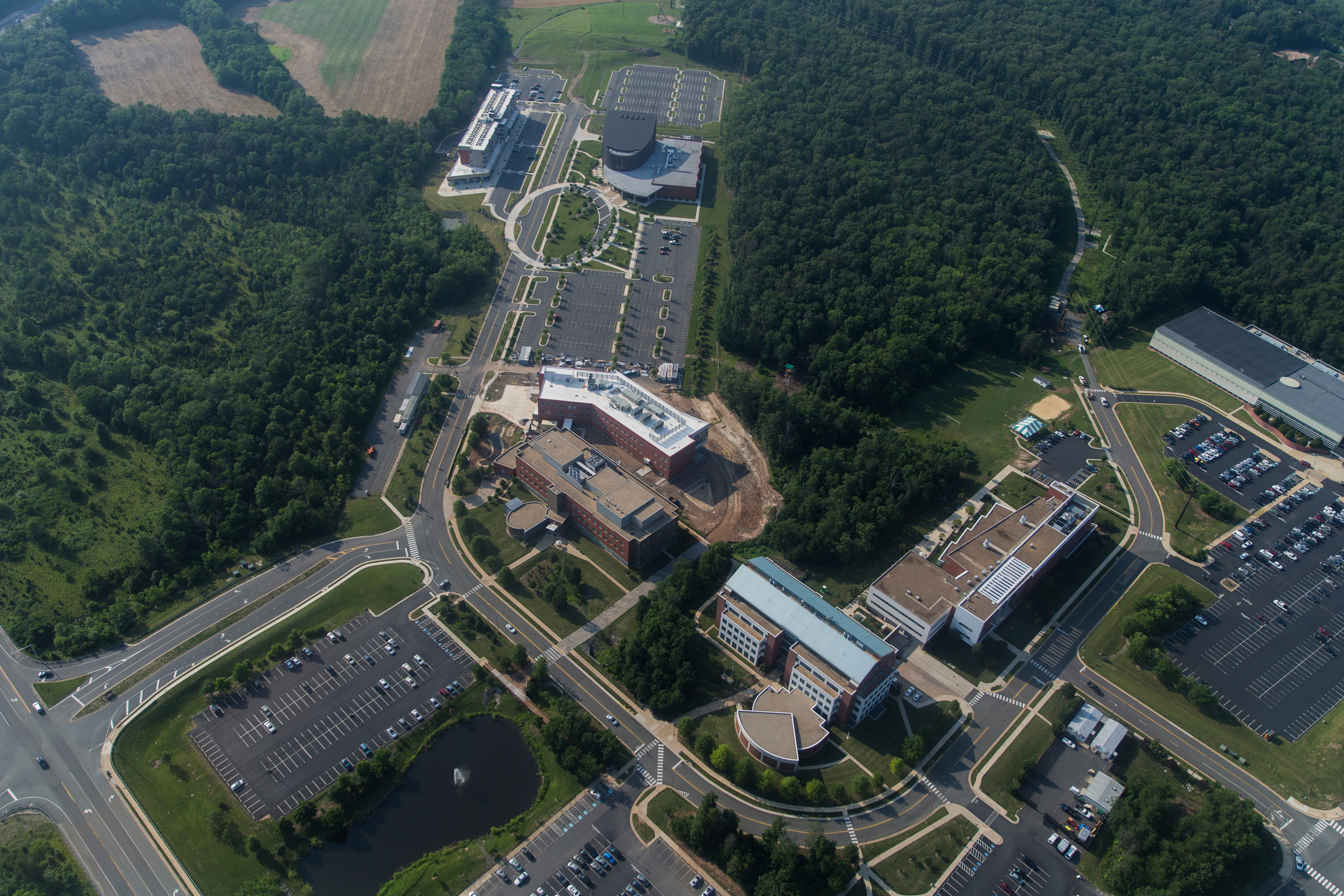 Prince William Campus aerial photos with student pilot Sean Graham. Photo by Craig Bisacre/Creative Services/George Mason University